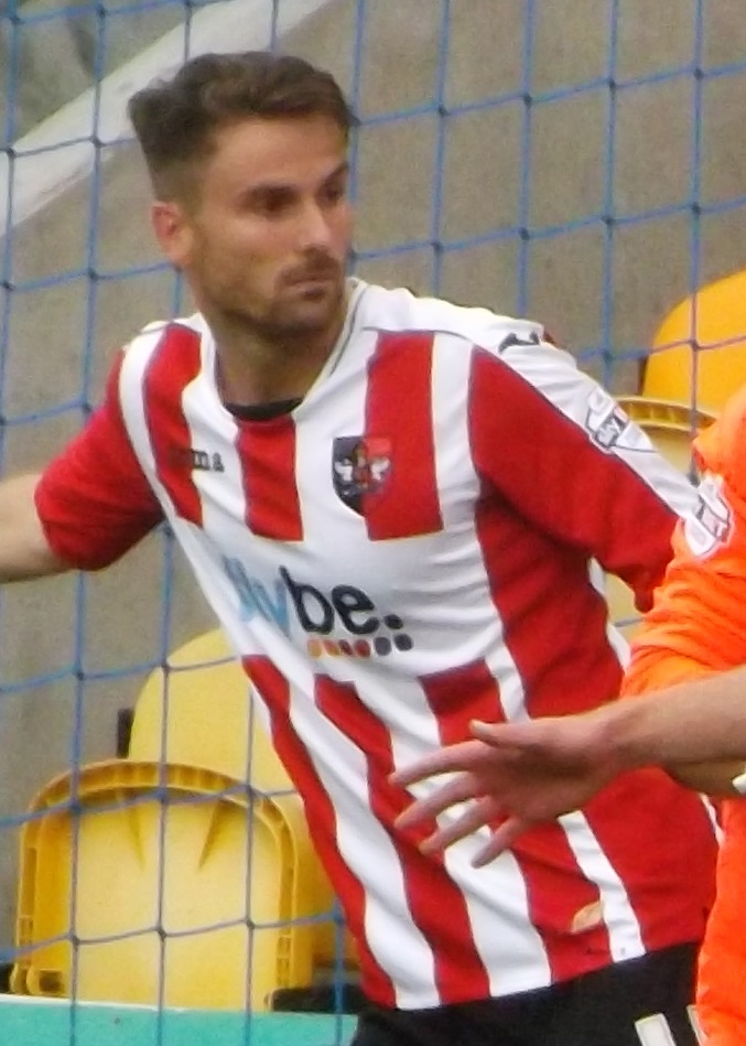 Arron Davies. Image cropped from original at flickr